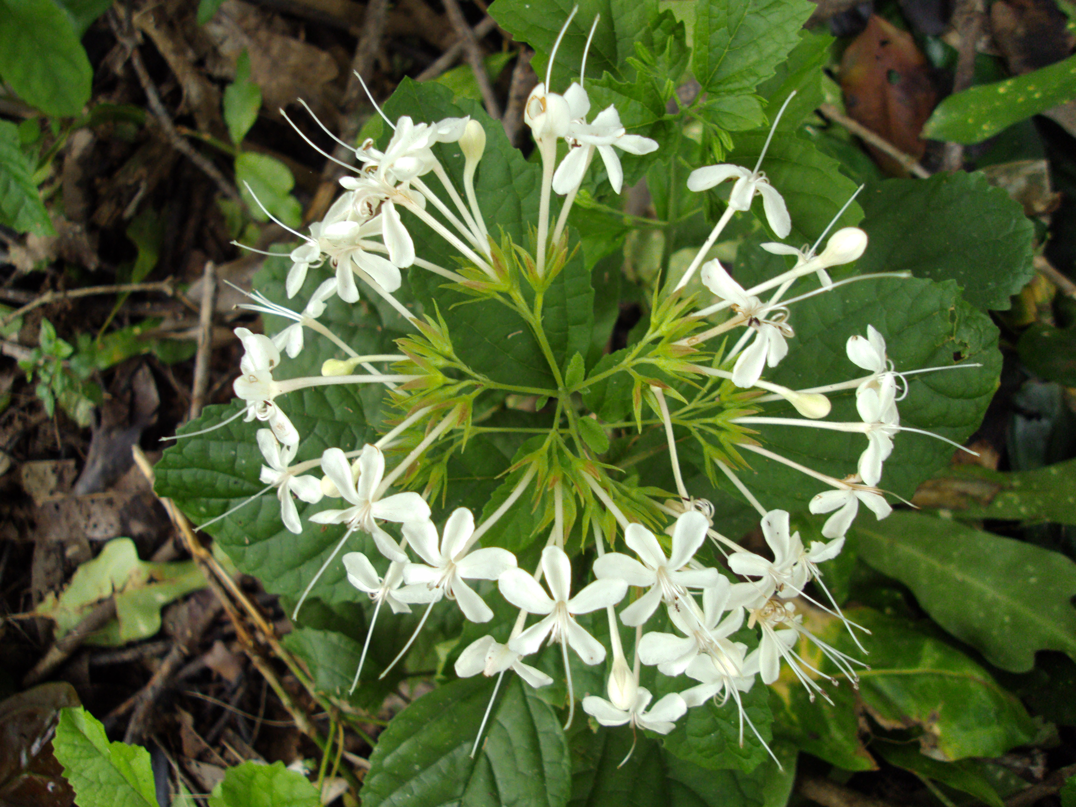 a common plant